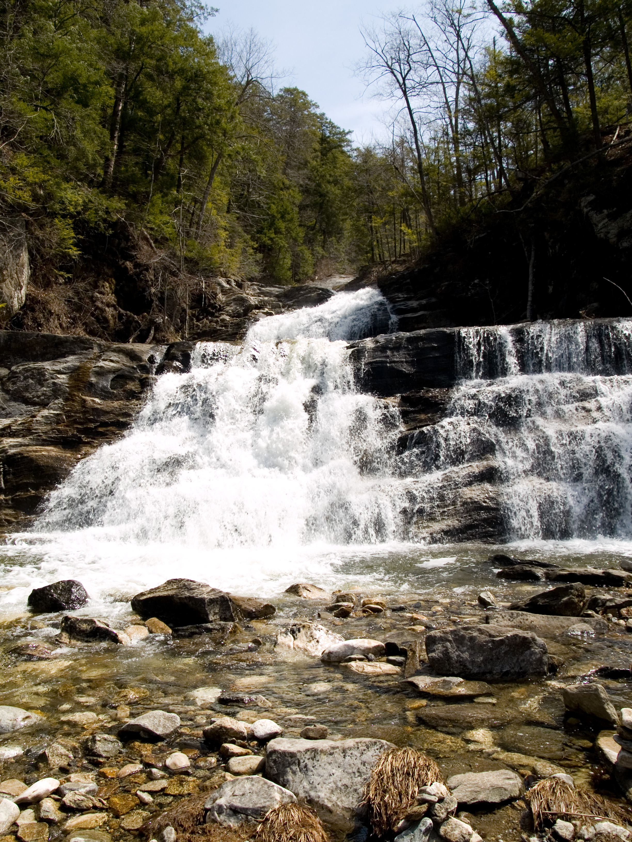 Just converted the Image from RAW to JEPG, just a quick snapshot, open by GFDl. ~Wikipedi